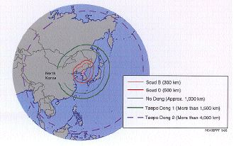 Range of North Korean Missiles.